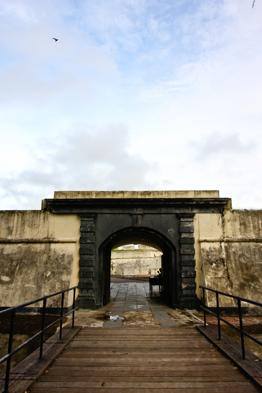 Fort Marlborough, Bengkulu. Was buit by British Army at 1714. Still stands until now.